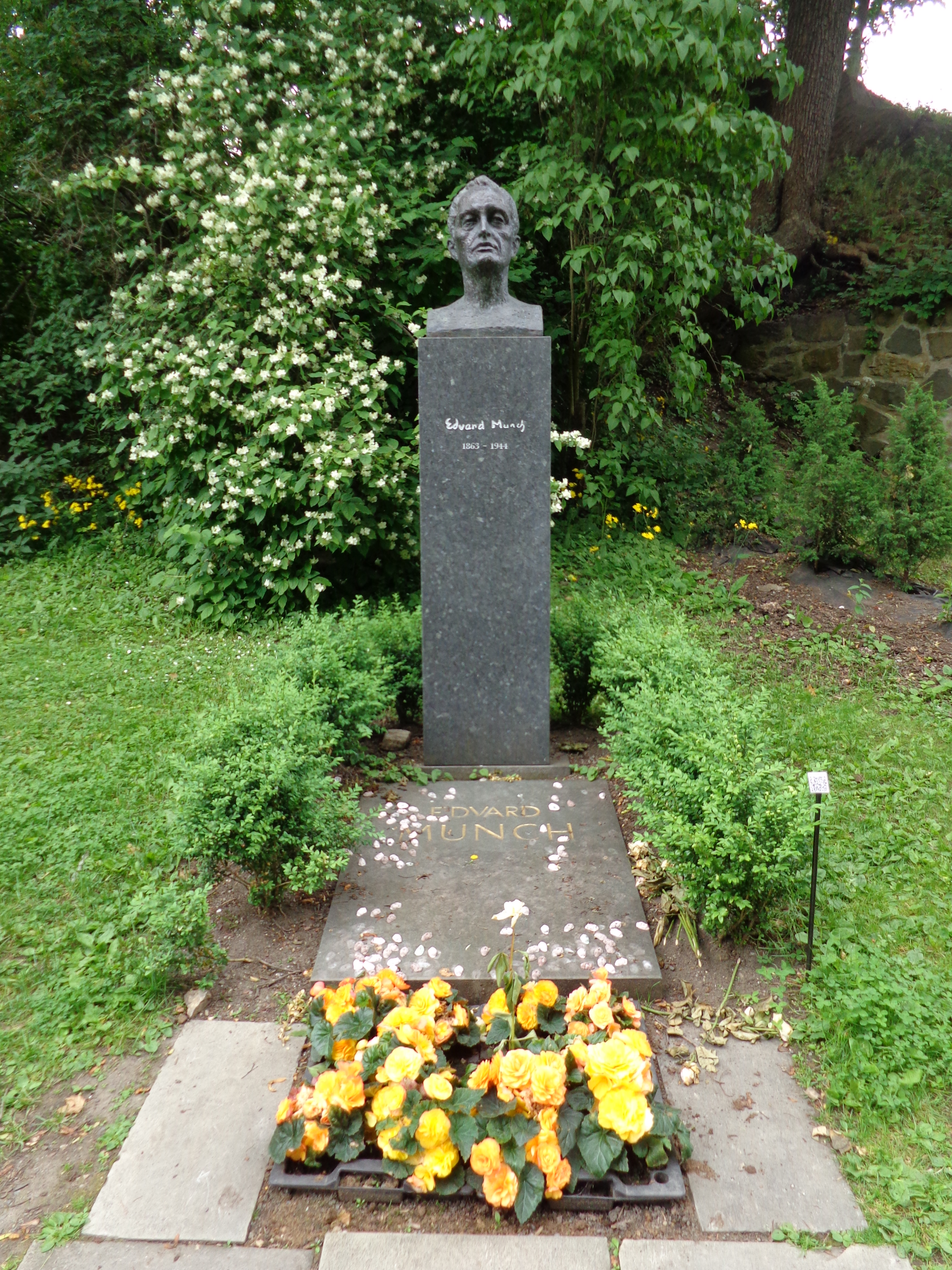 Grave of Edvard Munch at Vår Frelsers gravlund, Oslo, Norway.